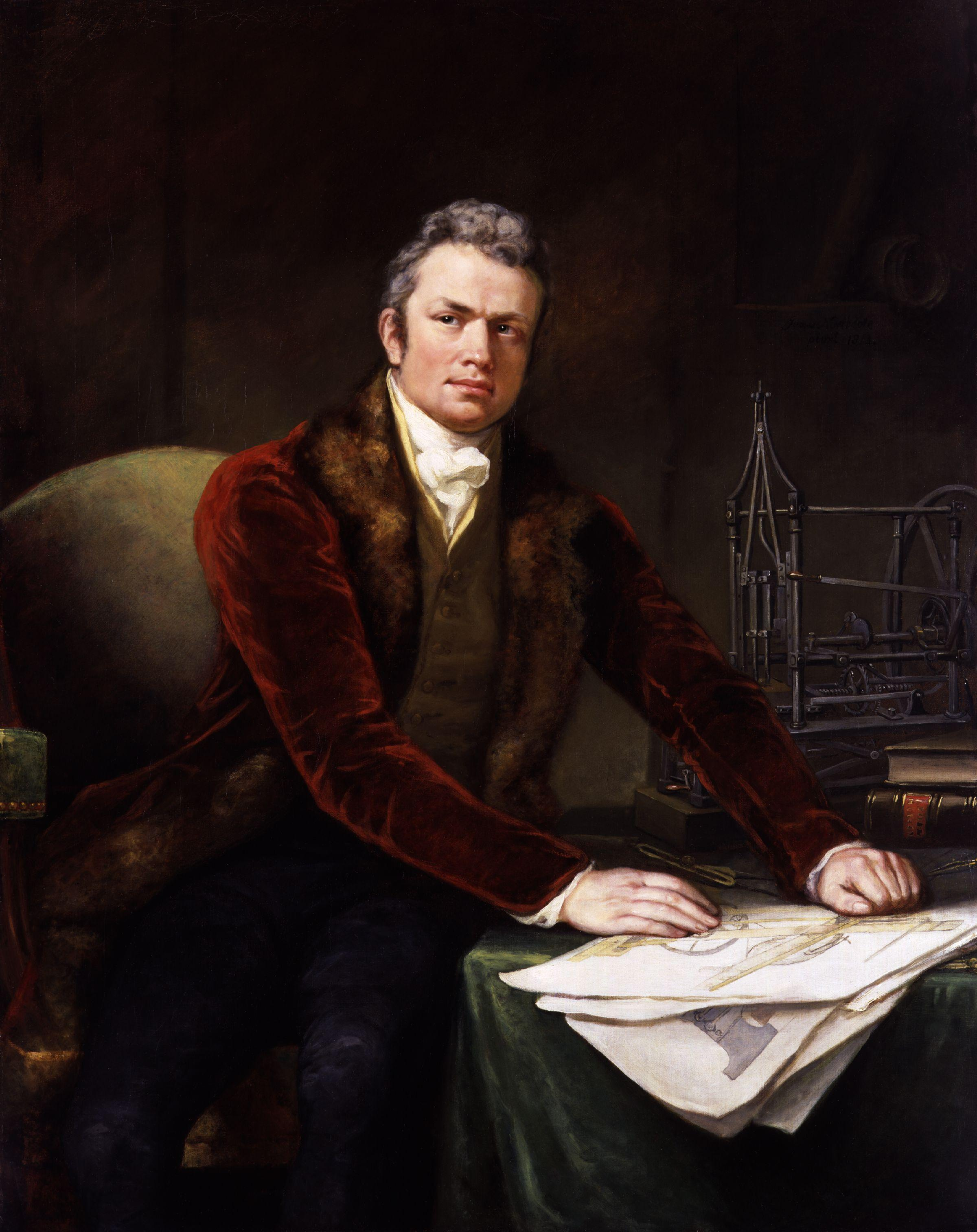 given to the National Portrait Gallery, London in 1895.